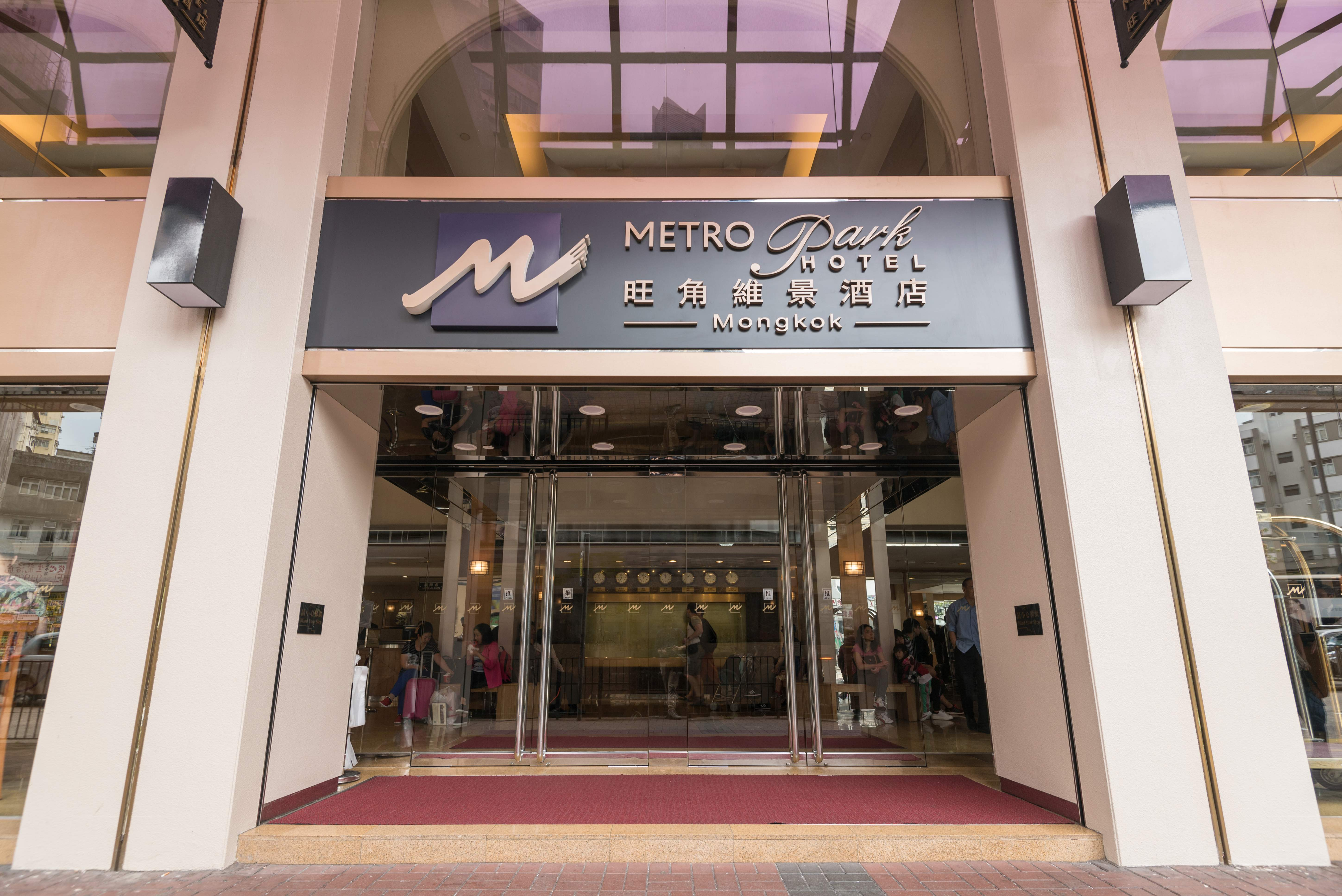 Metropark Hotel Mongkok